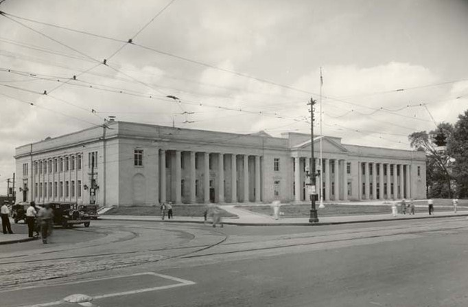 Source: National Archives, RG 121-BS, Box 64, Folder Q, Print 6637 cropped This work is in the public domain in the United States because it is a work prepared by an officer or employee of the United States Government as part of that person’s official duties under the terms of Title 17, Chapter 1, Section 105 of the US Code. Note: This only applies to original works of the Federal Government and not to the work of any individual U.S. state, territory, commonwealth, county, municipality, or any other subdivision. This template also does not apply to postage stamp designs published by the United States Postal Service since 1978. (See § 313.6(C)(1) of Compendium of U.S. Copyright Office Practices). It also does not apply to certain US coins; see The US Mint Terms of Use. This file has been identified as being free of known restrictions under copyright law, including all related and neighboring rights. Object location35° 13′ 49″ N, 80° 50′ 49″ W